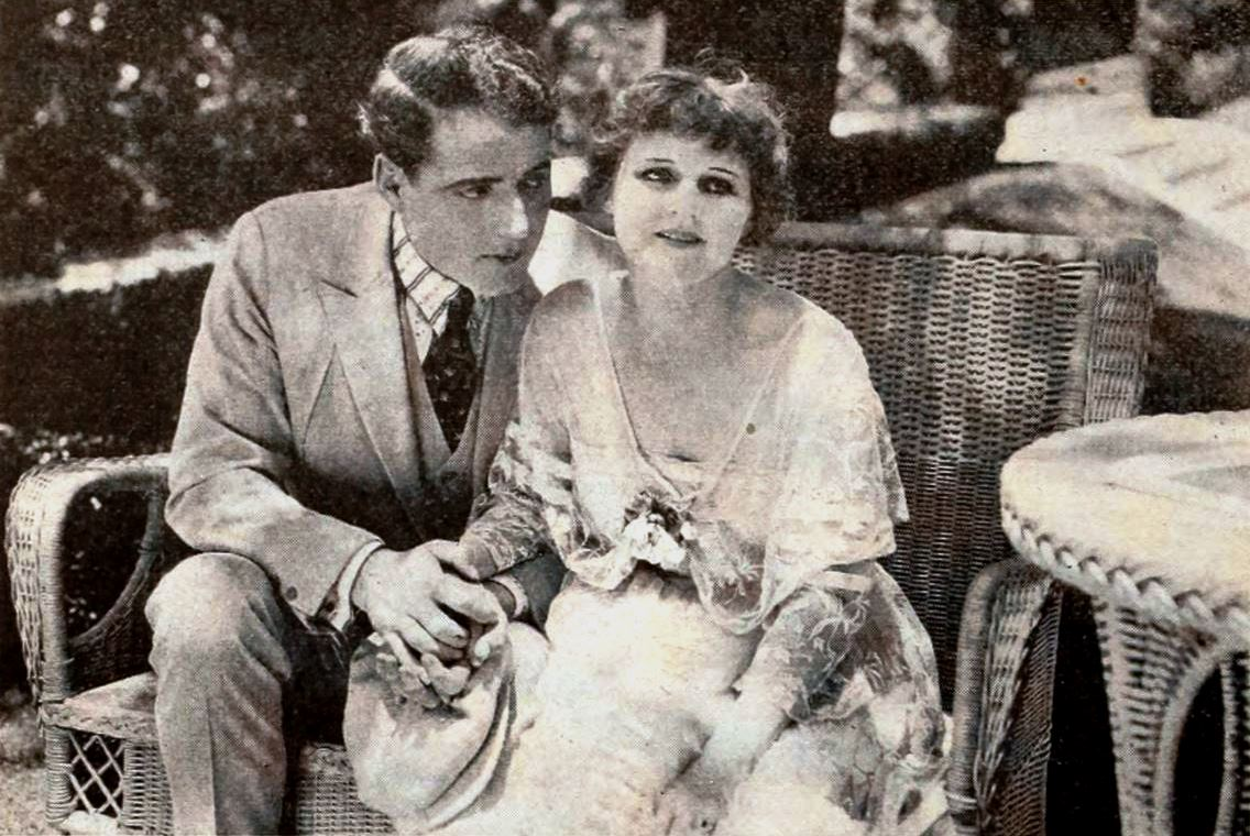 Still from the American comedy crime film The Joyous Liar (1919) with J. Warren Kerrigan and Lillian Walker, on page 52 of the September 13, 1919 Exhibitors Herald.